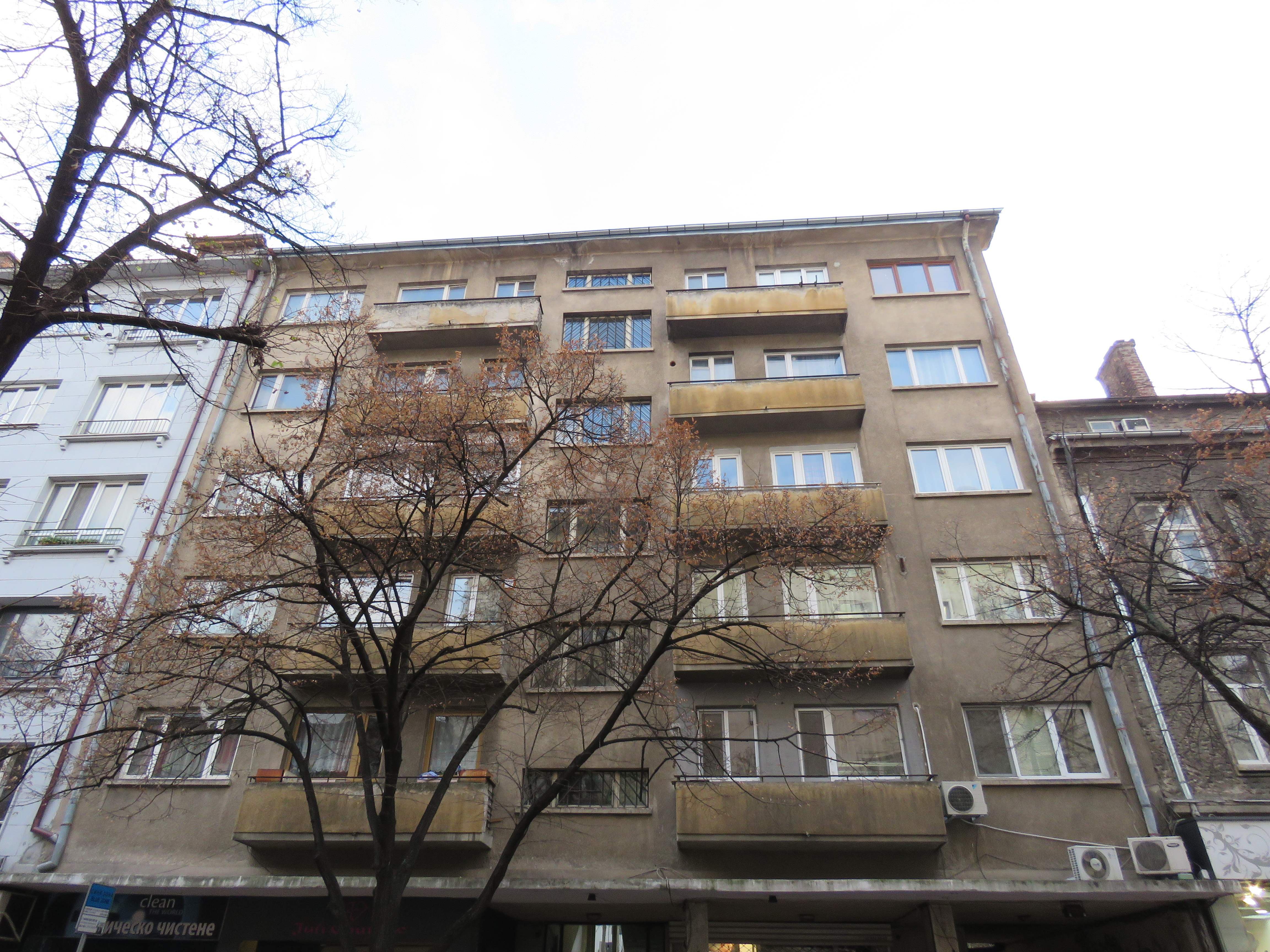 Building with Ivan Sarailiev memorial plaque, 11 Solunska Str., Sofia